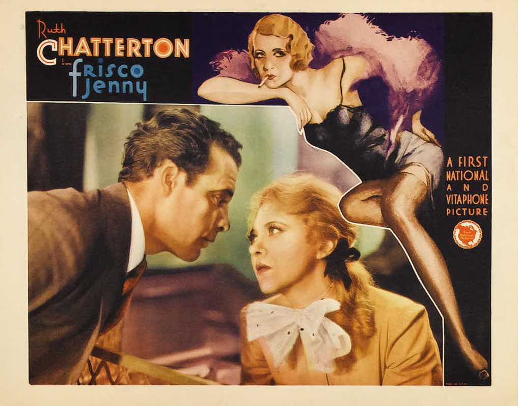 Lobby card for the American film Frisco Jenny (1933).